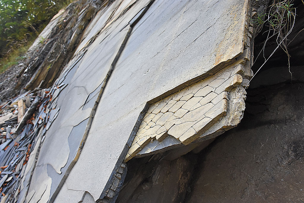 A fine-grained, clastic sedimentary rock, in thin laminae. Potokgraben / Košutni potok is a valley, stretching eastwards from the summit of Dicke Koschuta / Tolsta Košuta.